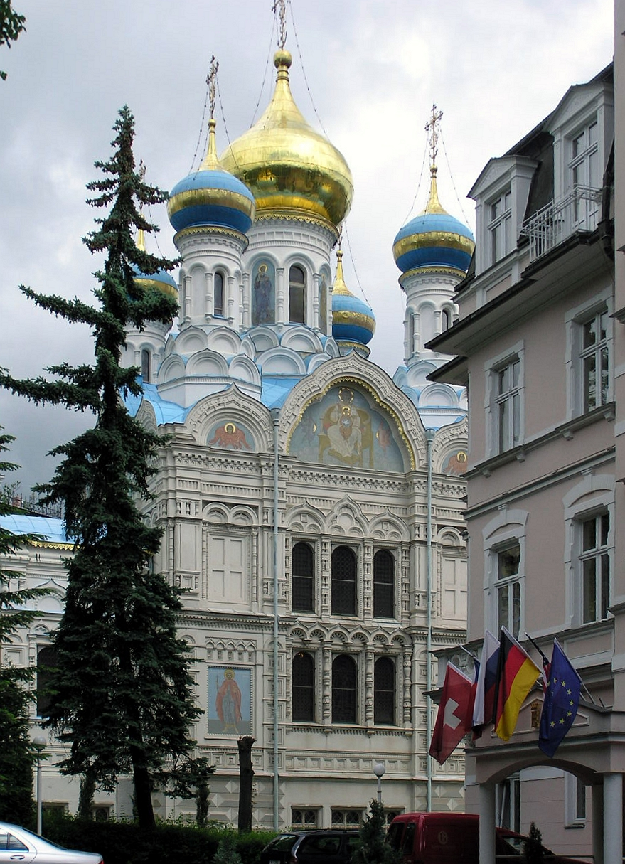 Karlovy Vary (Karlsbad) Russisch-orthodoxe Kirche Hl. Petrus und Paulus